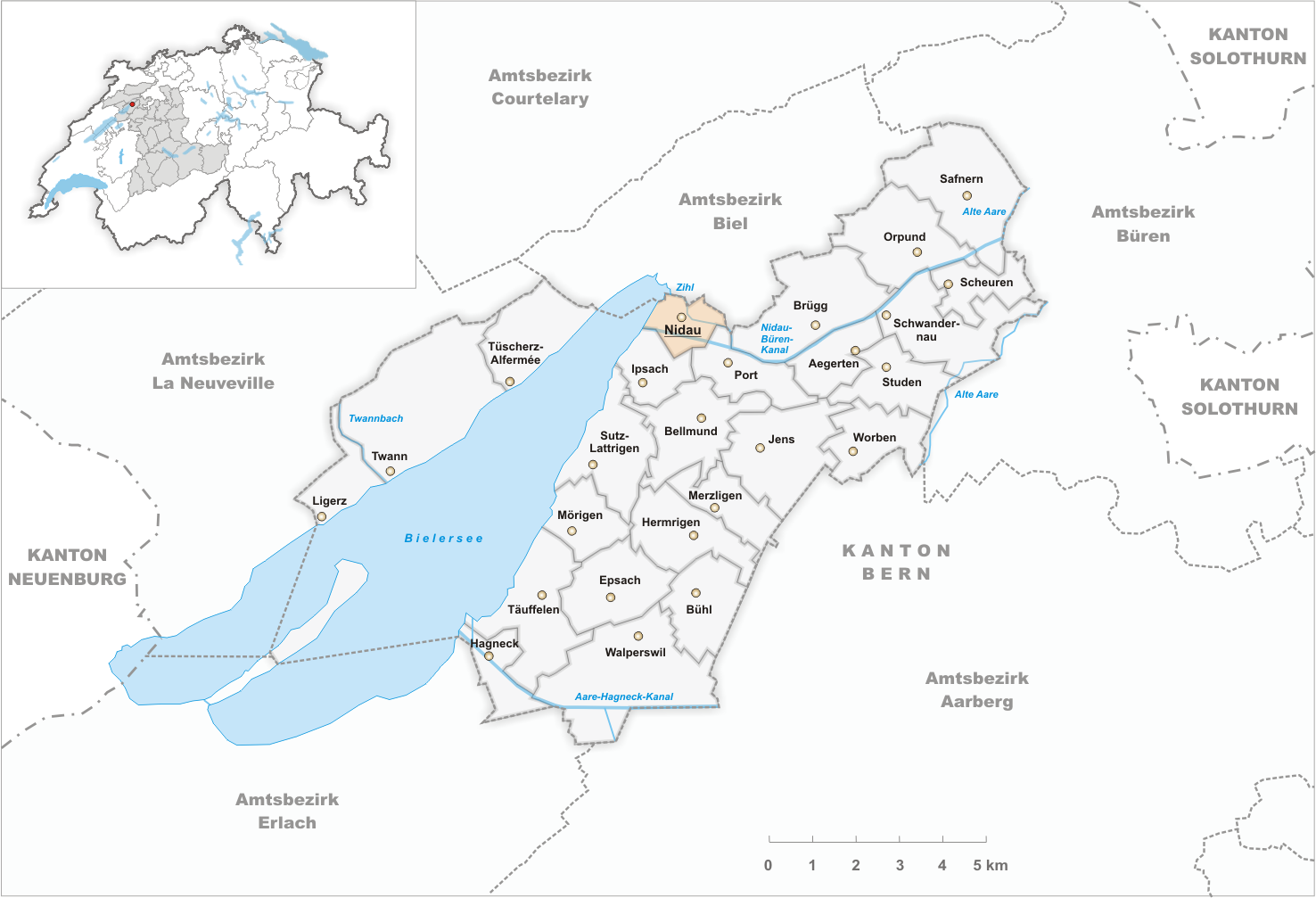 Municipality Nidau